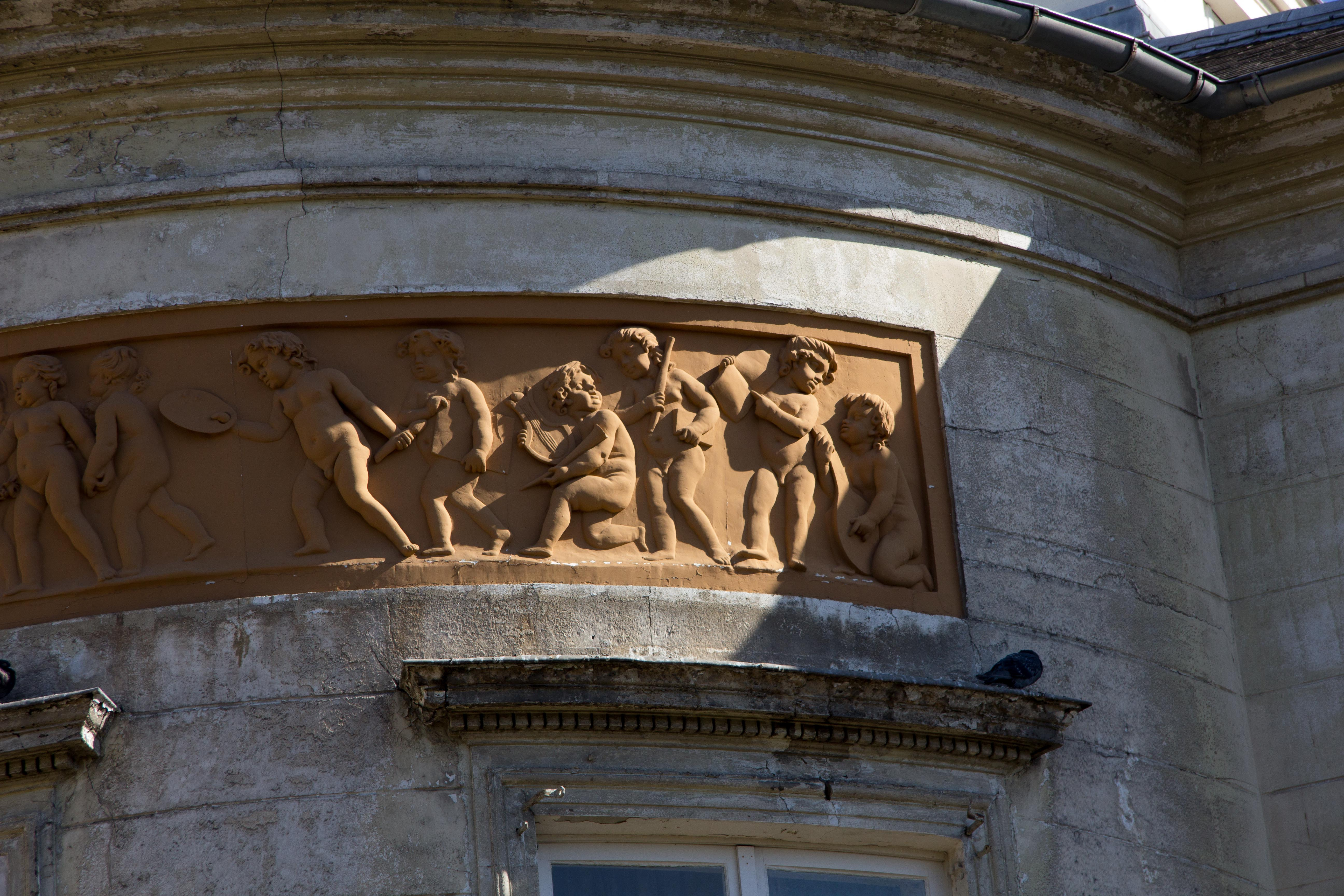 House of Jean-Jacques Huvé in Meudon sur Seine